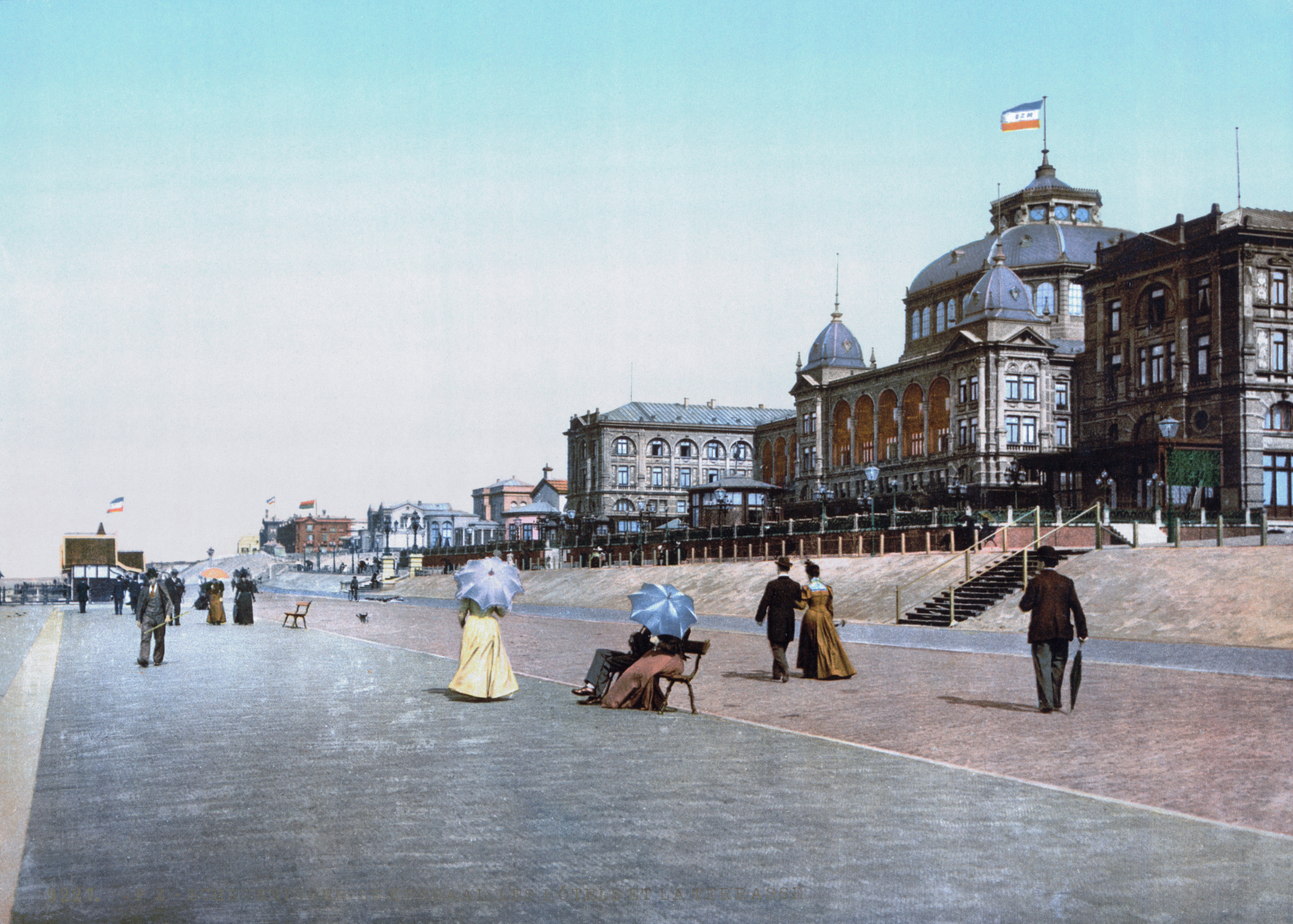 Scheveningen, the Netherlands - The Kurhaus, a famous beach resort, the hotels en the terrace